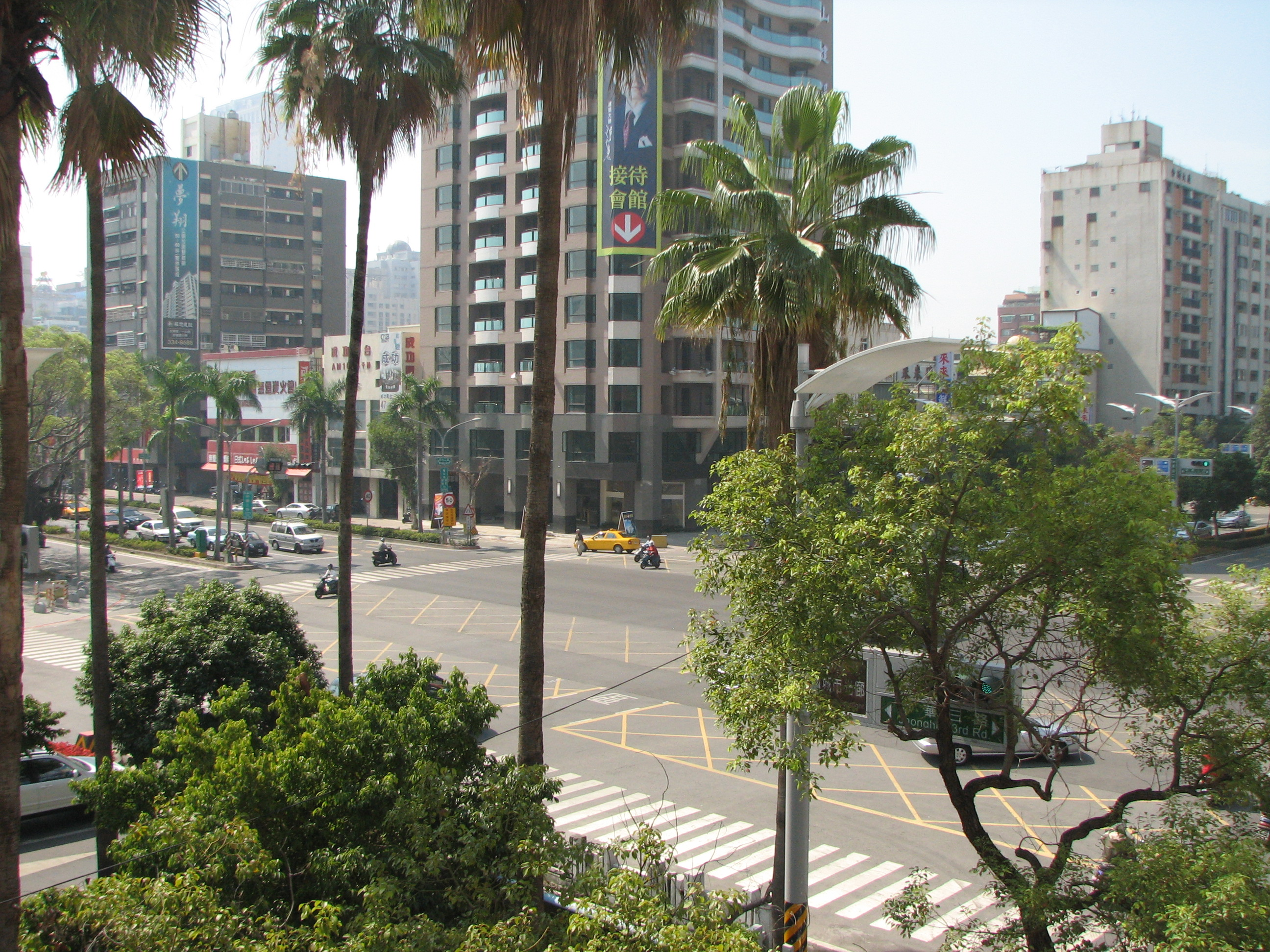 Minsheng Rd. and Jhonghua Rd. Cross in Kaohsiung City